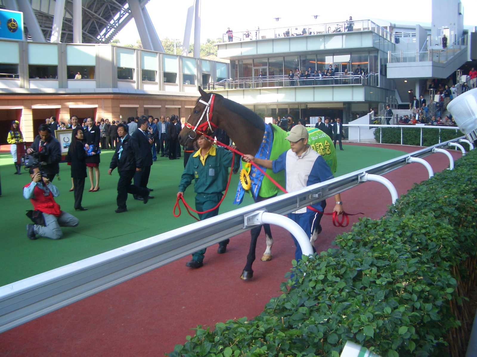 Bullish Luck is a former racehorse showing in farewell ceremony on 1-1-2009 中文（香港）: 牛精福星在1月1日在沙田馬場舉行歡送儀式